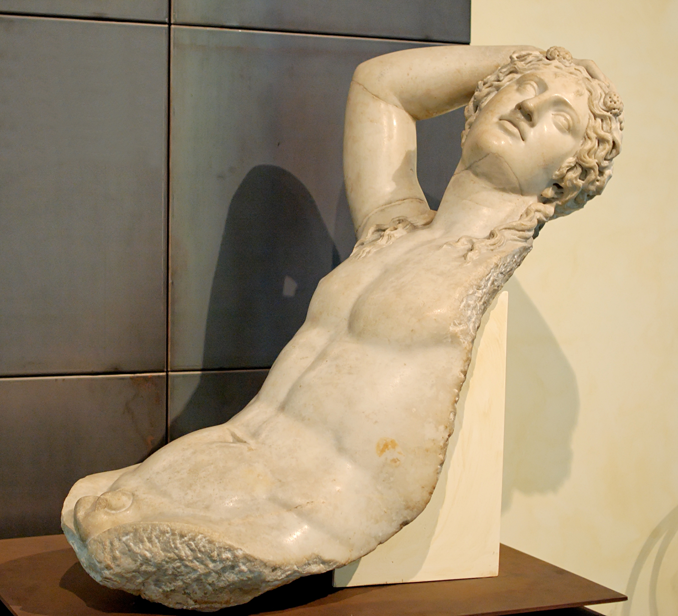 Torso of Dionysos reclining on a chariot, according to the standards of an Indian triumph. Luni marble, Roman artwork of the Antonine period, 160-200 CE. Found in the area of the Horti Lamiani, 1874.